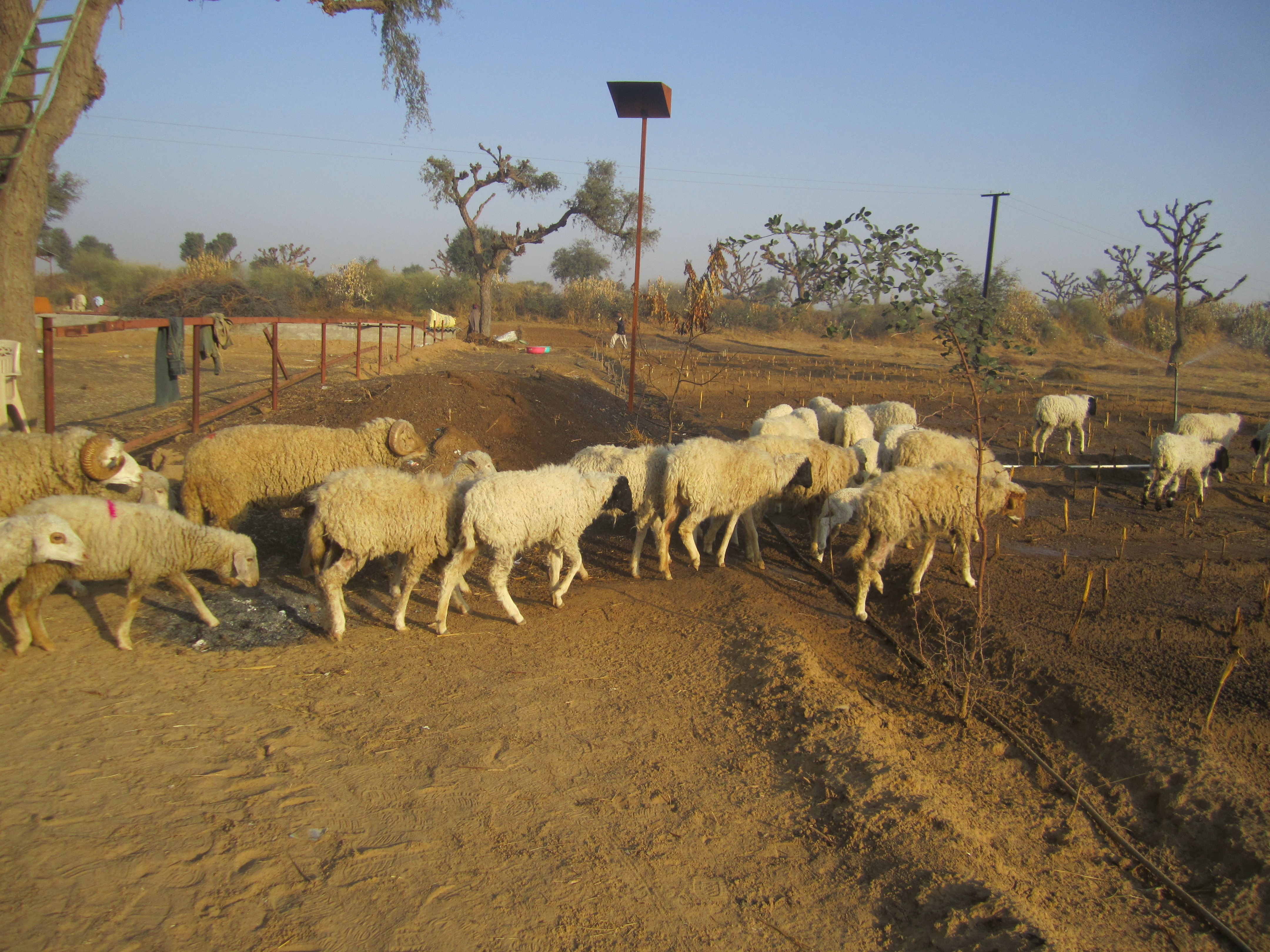 Flock consisting of Margra Ewes